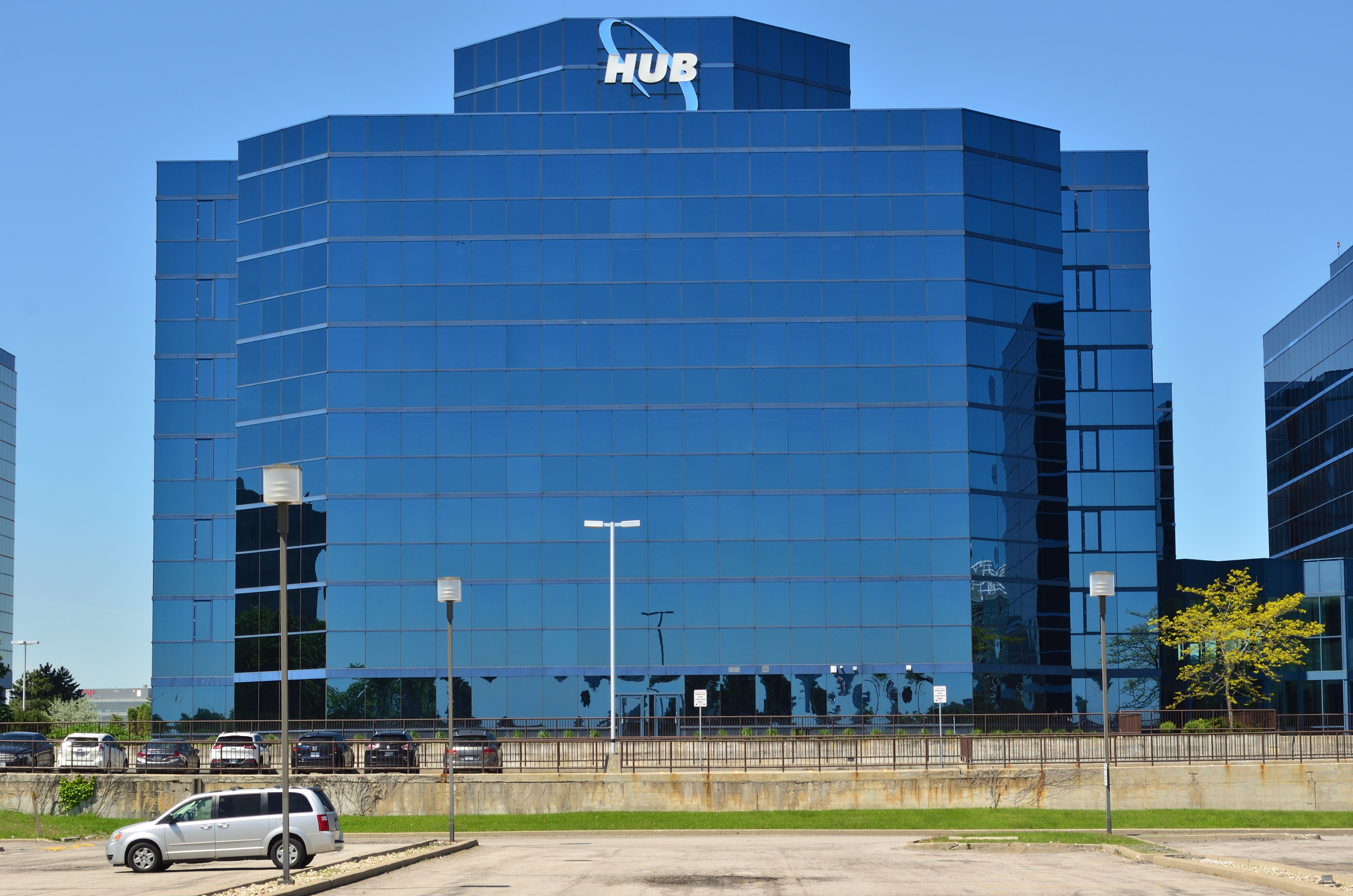 Hub International in Markham